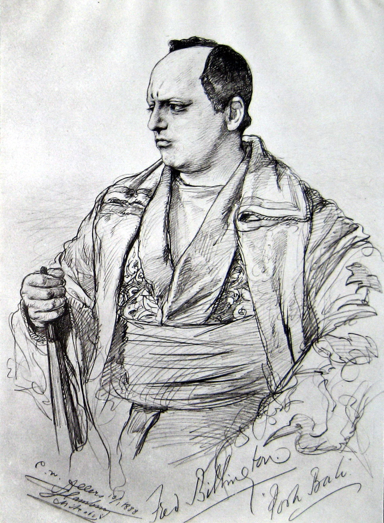 Drawing showing english actor Fred Billington, drawn by C.W.Allers